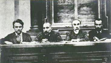 The First Convention of All-Russia Soviet Workers and Soldier Deputies. Presidium 1-go Vserossiiskago siezda Sovieta Rabochikh i Soldatskim Deputatov. M.I. Skobelev, N.S. Chkheidze, G.V. Plekhanov, I.Ch. Tseretelli.